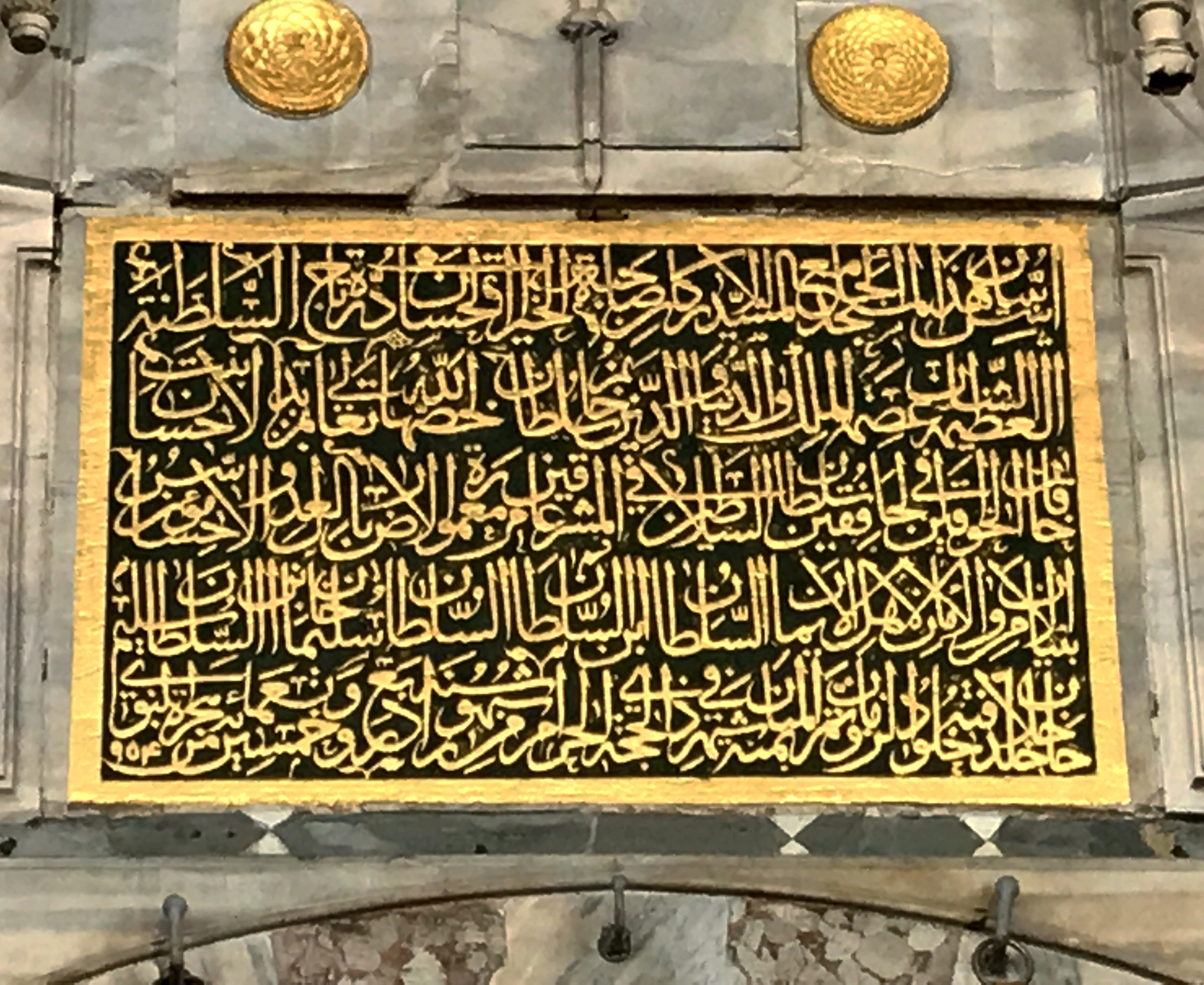 Mihrimah Sultan Mosque (built 1548), is an Ottoman mosque located in the historic center of the Üsküdar municipality in Istanbul, Turkey. It is the first of two mosques built by Mihrimah Sultan, daughter of Sultan Suleiman the Magnificent and wife of Grand Vizier Rüstem Pasha. It was designed by Mimar Sinan and built between 1546 and 1548.